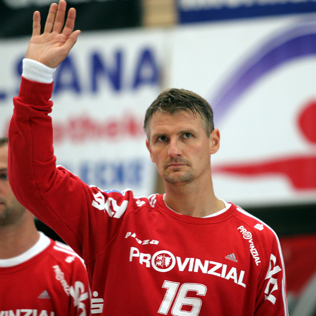 Peter Gentzel, the Swedish handball goal keeper from THW Kiel, during the Schlecker Cup 2009 in Ehingen (Germany)